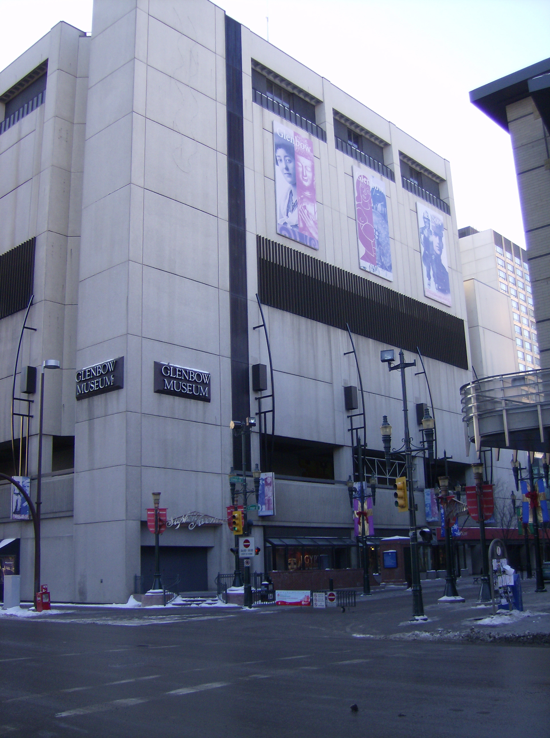 Northeast corner of the Glenbow Museum in Calgary, Alberta, Canada.